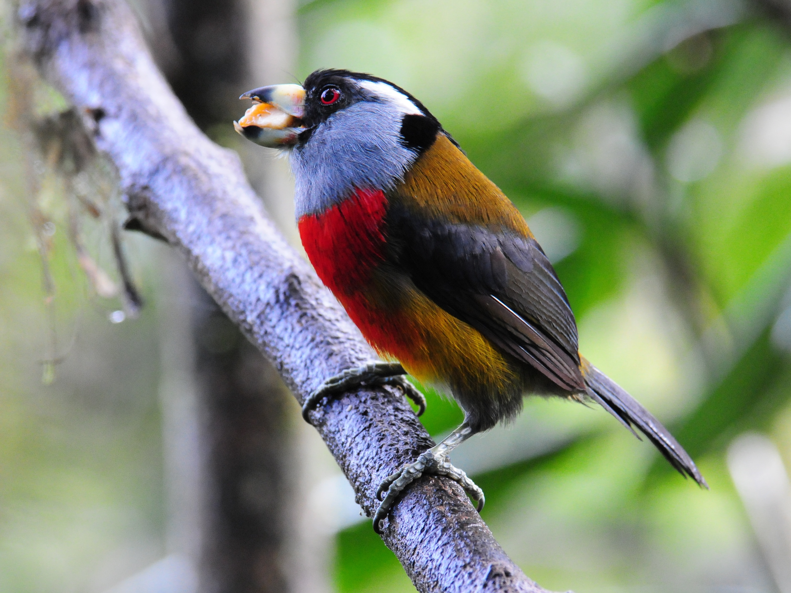 A Toucan Barbet in Mindo, Ecuador.